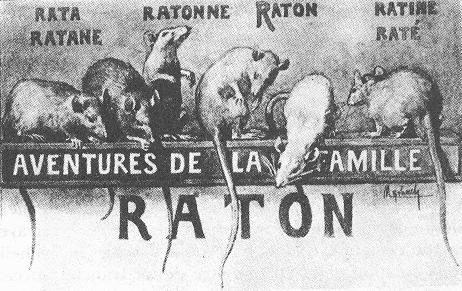 Ilustration by Féliciena de Myrbacha (1853 - ?) to Jules Verne fairy-tale